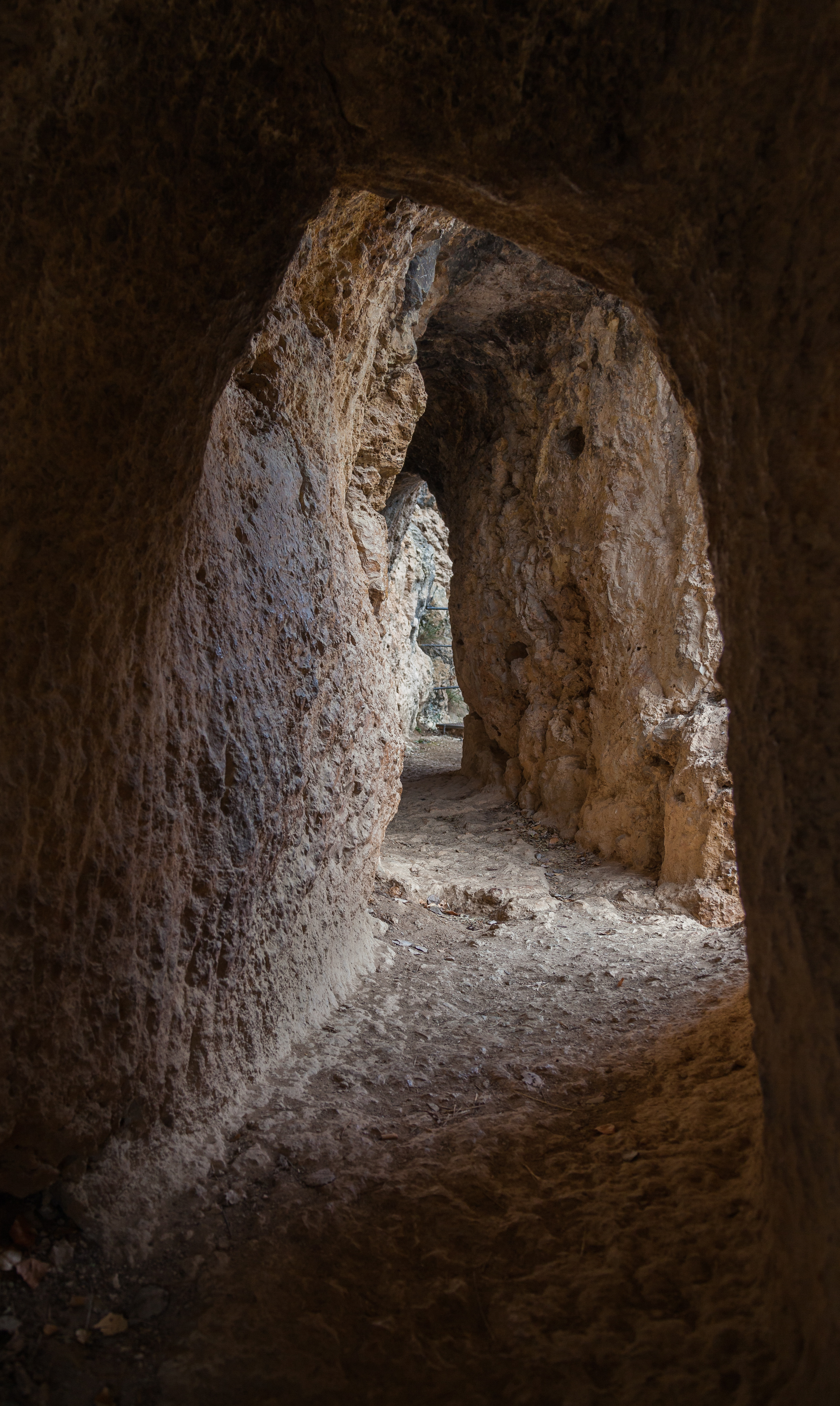 These cavities are called "Galería de los Espejos" (Mirrors Galery) and are part of an ancient 25 km roman aqueduct built during the 1st century aC, Albarracín, Teruel, Aragón, Spain